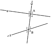 Alternate angles